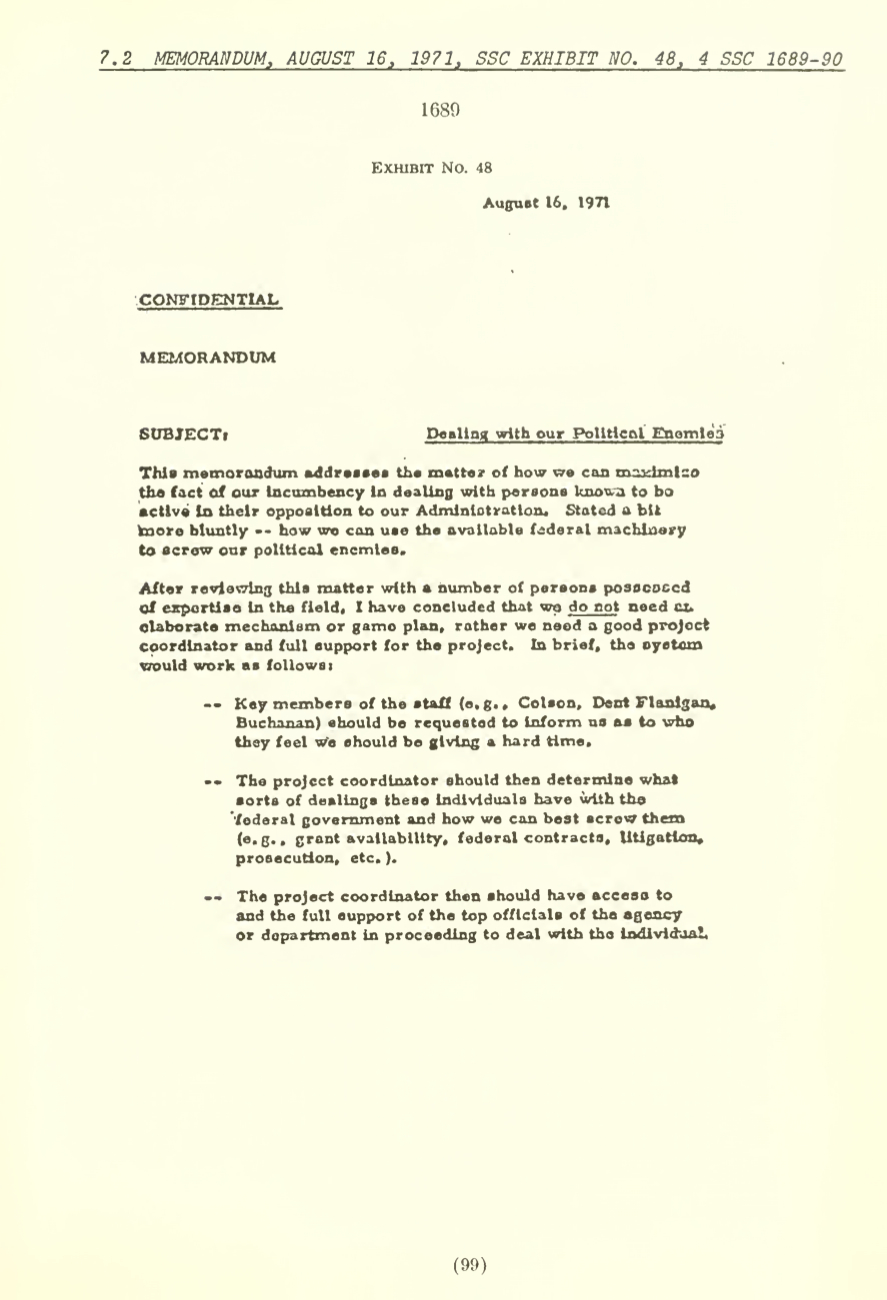 Memo prepared by John Dean on 16 August 1971 regarding Nixon's Enemies List.